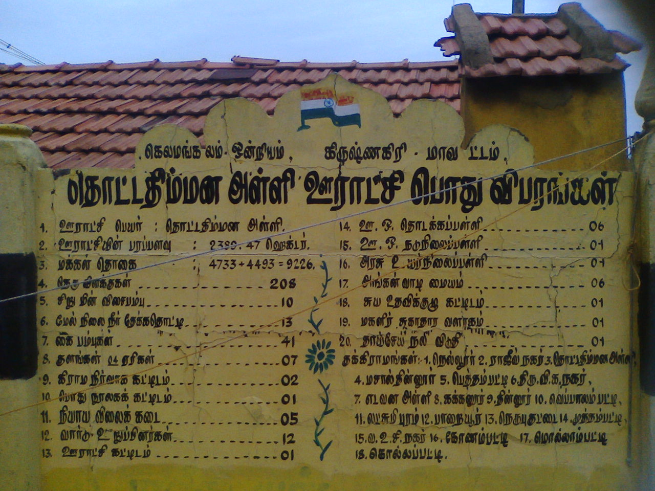 தொட்டதிம்மன அள்ளி தகவல்பலகை